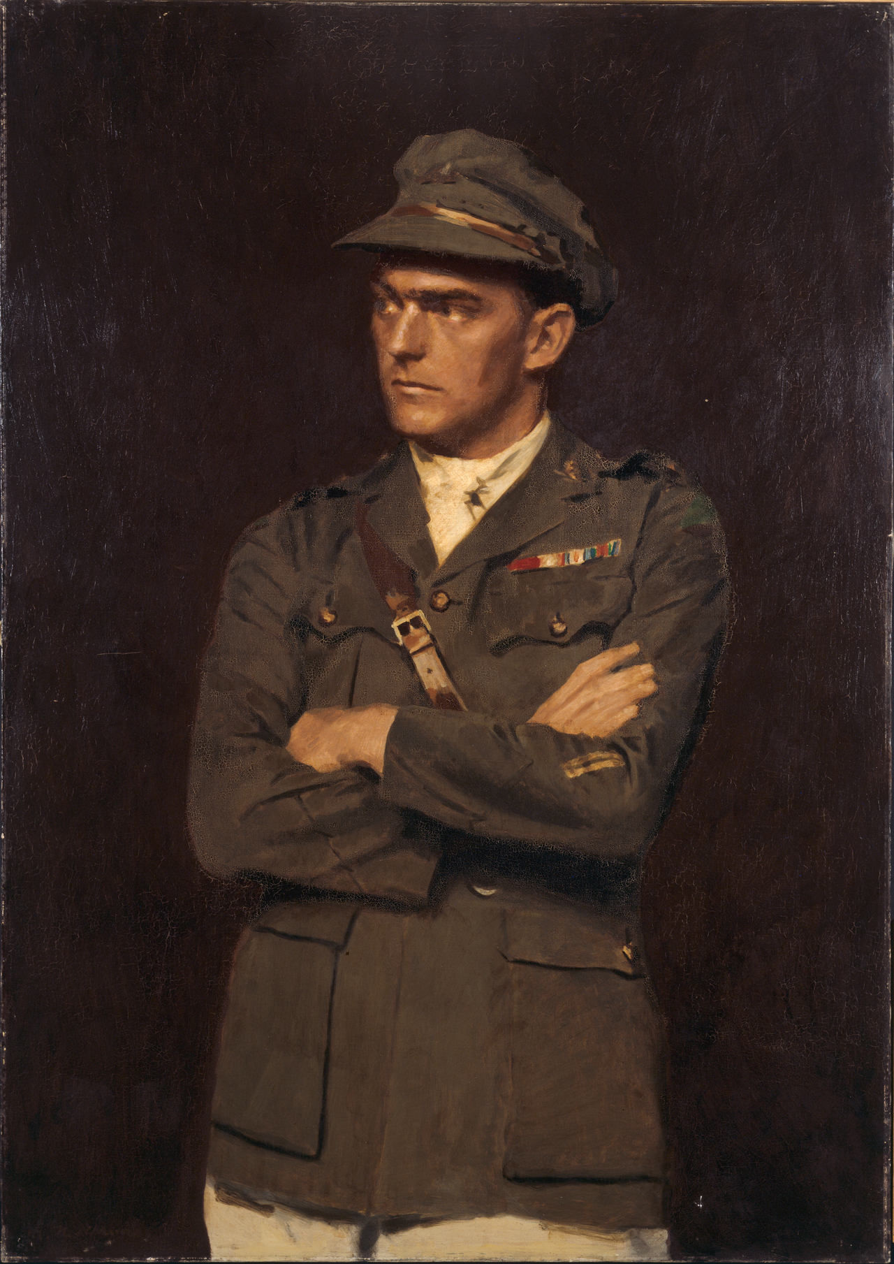 After the outbreak of the First World War, Napier-born Percy Storkey (1893-1969) put his University of Sydney law studies aside and enlisted, joining the Australian forces. By 1918 he was a battle-scarred (twice wounded) and respected platoon commander in the 19th Australian Infantry Battalion. On 7 April 1918, Storkey earned a Victoria Cross during an attack at Hangard Wood in France. In an important but ill-fated attack beyond Villers-Bretonneux, Storkey led a small group in bayonet assaults against enemy machine-gun positions, capturing around 50 survivors. The initial success obtained in the battle was largely due to these efforts. This oil portrait of Captain Percy Valentine Storkey, VC, AIF, was painted by Duncan Max Meldrum around 1920. It comes from the National Collection of War Art held by Archives New Zealand, but the painting itself is on permanent loan to the Australian War Memorial. Archives Reference: AAAC 898 NCWA 492 For updates on our On This Day series and news from Archives New Zealand, follow us on Twitter Material from Archives New Zealand Caption information from